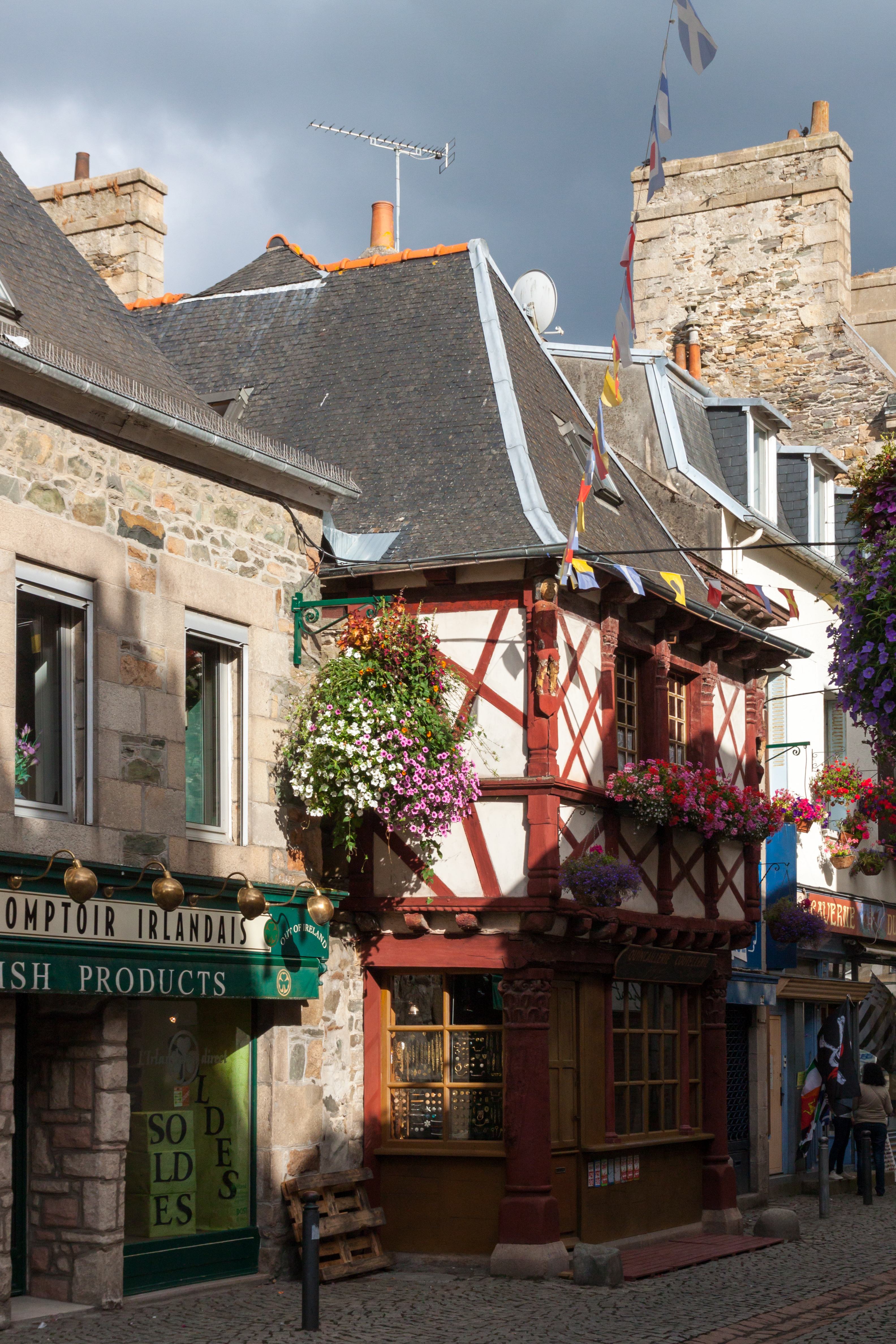 An ancient Hardware store in Paimpol ( 6 Rue des Huit Patriotes )